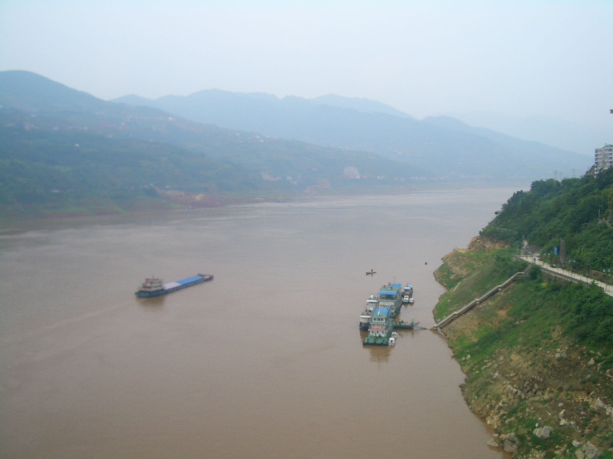 Changjiang in Badong, seen from Badong Bridge